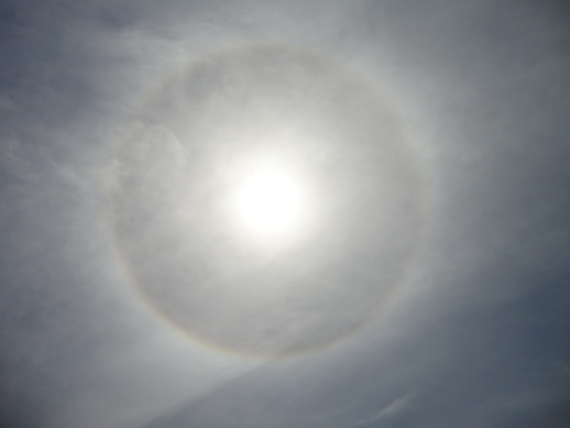 Sun halo effect, Cape Palisser, Wellington New Zealand